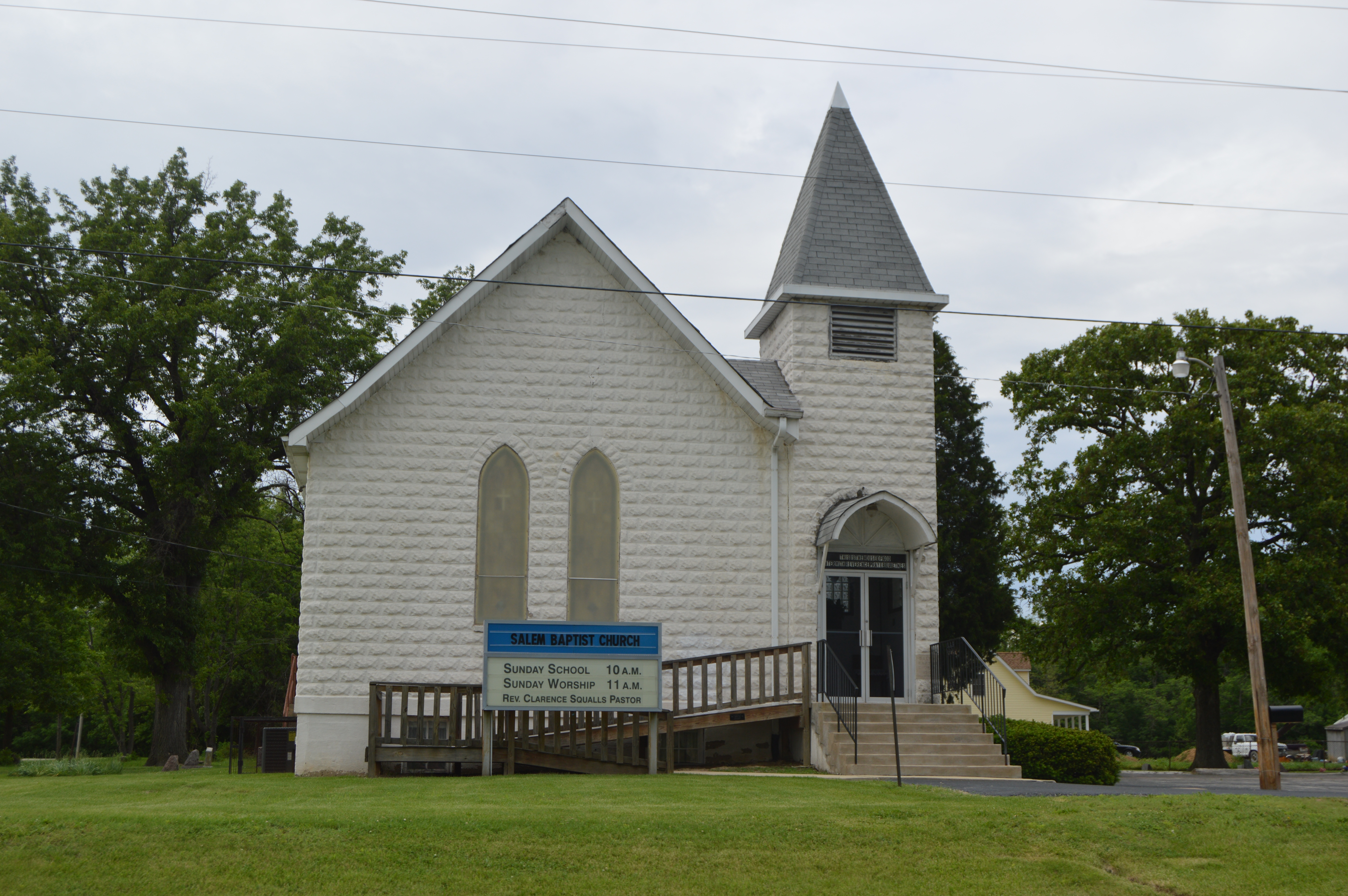 Front and eastern side of Salem Baptist Church, located at 2001 Seiler Road north of Alton in Foster Township, Madison County, Illinois, United States. Built in 1912, it is listed on the National Register of Historic Places.